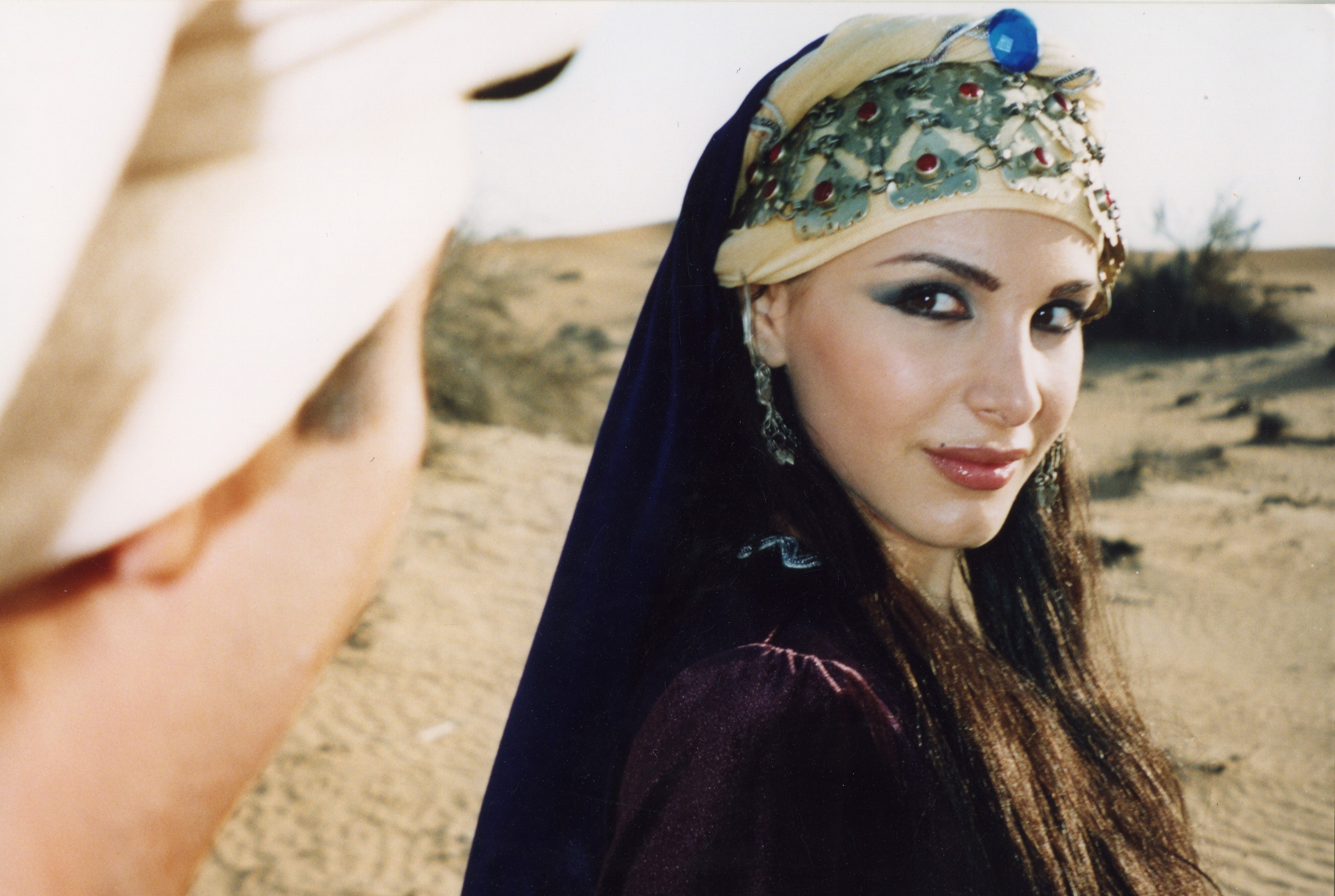 JOELLE BEHLOK - Miss Lebanon 1997 - Lebanese Actress in the Drama series as the lead female role - Princess Shaima - in the Drama series "The Last Cavalier"